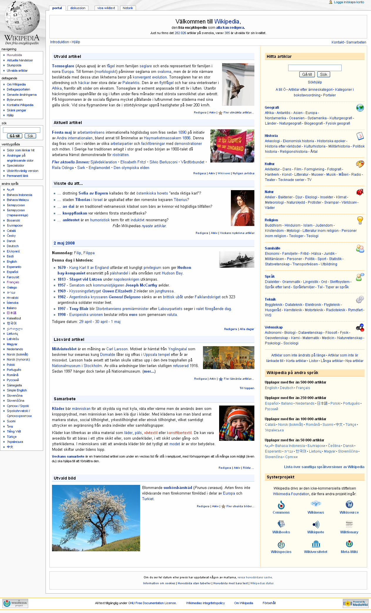 Swedish Wikipedia Main Page